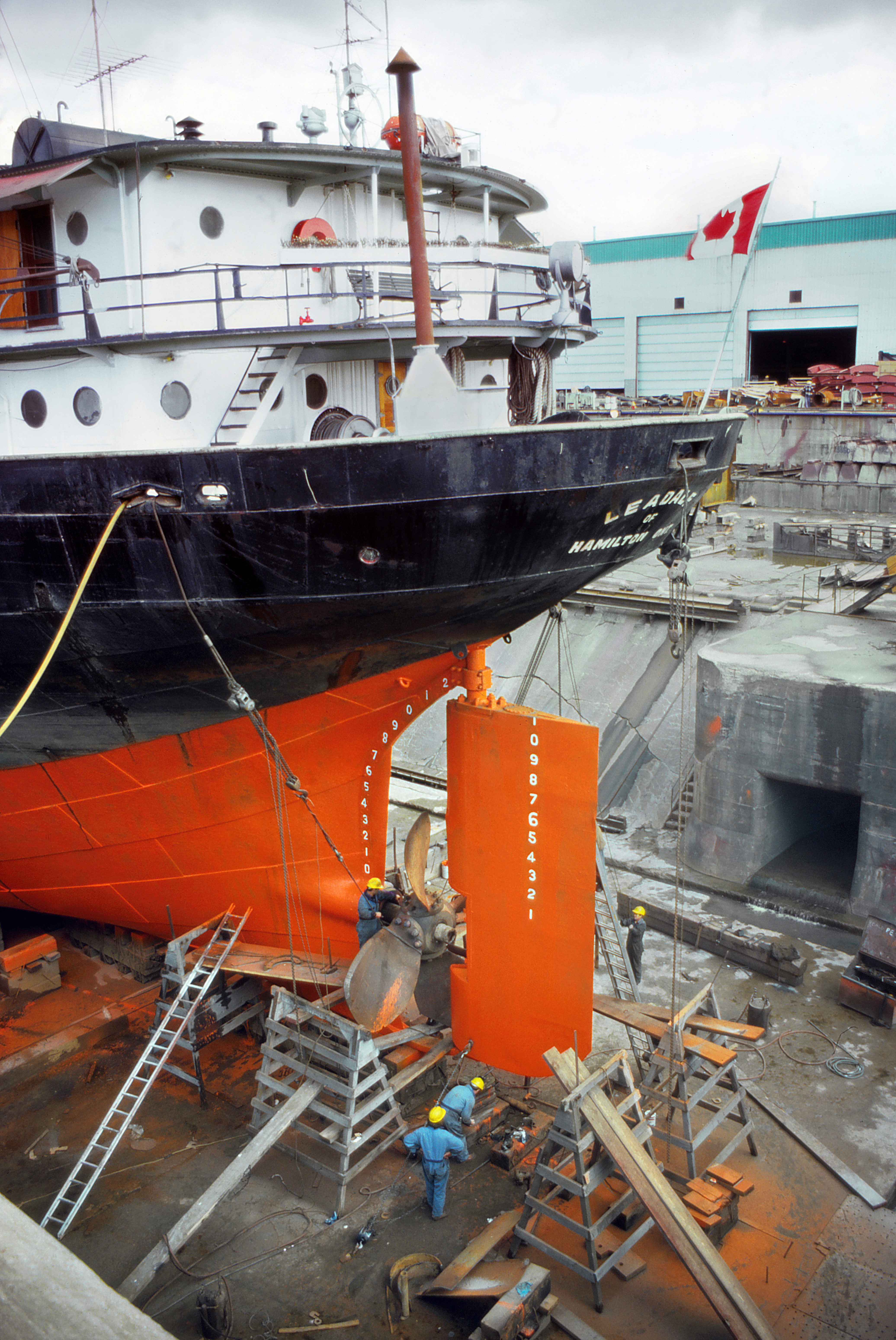 Maintenance work performed on Leadale at Port Weller Dry Docks in 1975 in St. Catharines, Ontario, Canada. Leadale was launched in 1910 (as the Harry Yates) and scrapped in 1979. (Digitized from original Kodachrome.)